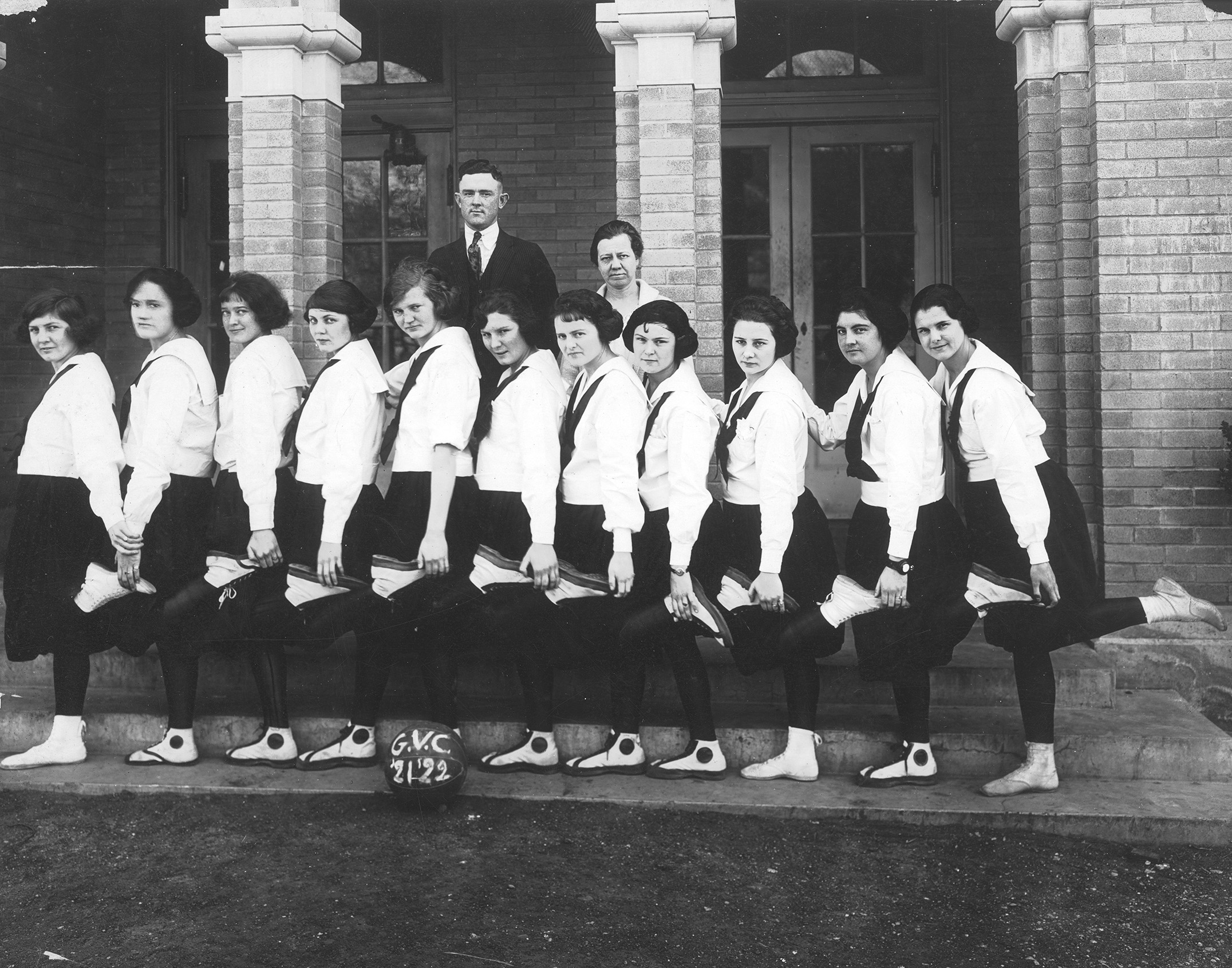 Grubbs Vocational College girl's basketball team, wearing middy blouses and wool bloomers.